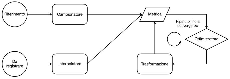 High level description of image registration pipeline